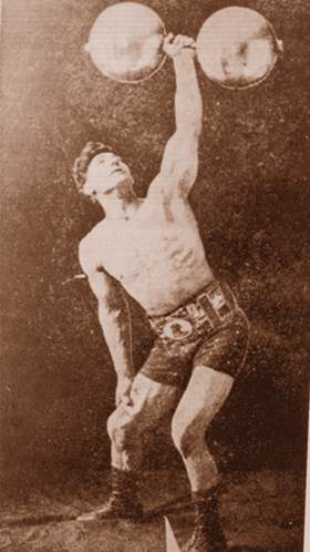 Victor Delamarre